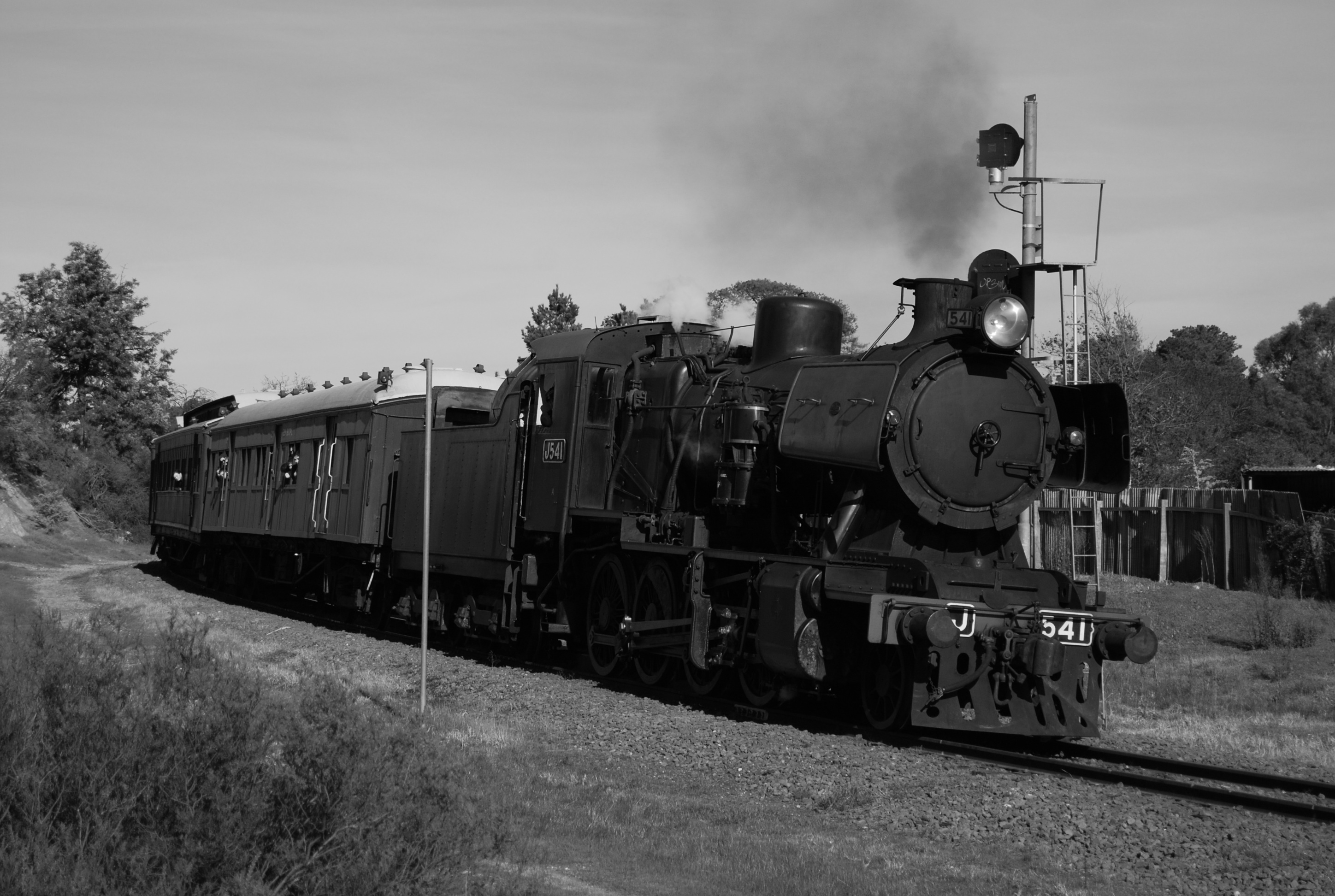 J541, owned by the Yarra Valley Tourist Railway, arrives near Castlemaine.